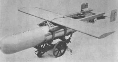 GT-1 "glide torpedo" on ordnance cart.